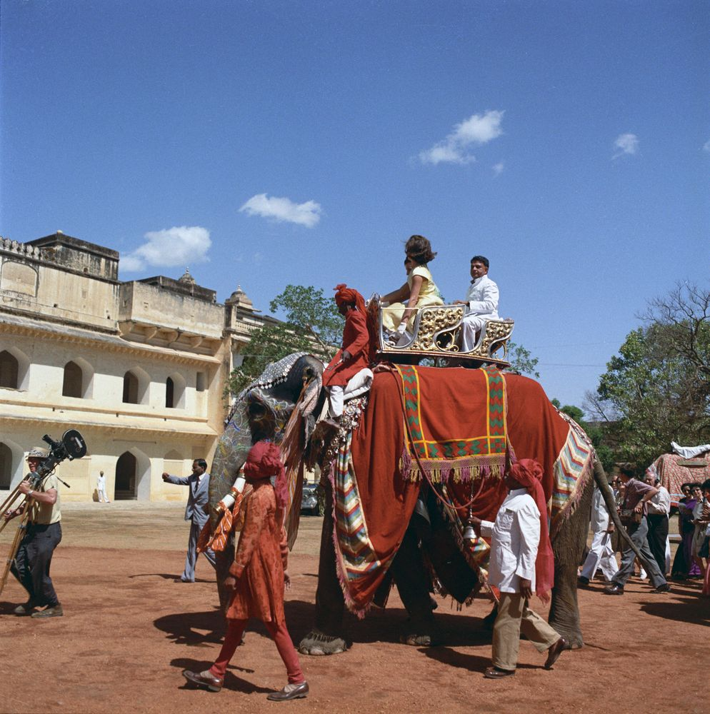 First Lady Jacqueline Kennedy (wearing yellow dress) and her sister Princess Lee Radziwill of Poland (hidden) ride an elephant, Bibia, in the courtyard of Amber Palace in Jaipur, Rajasthan, India. The Home Minister of Rajasthan, Mathuradas Mathur, sits behind the First Lady.